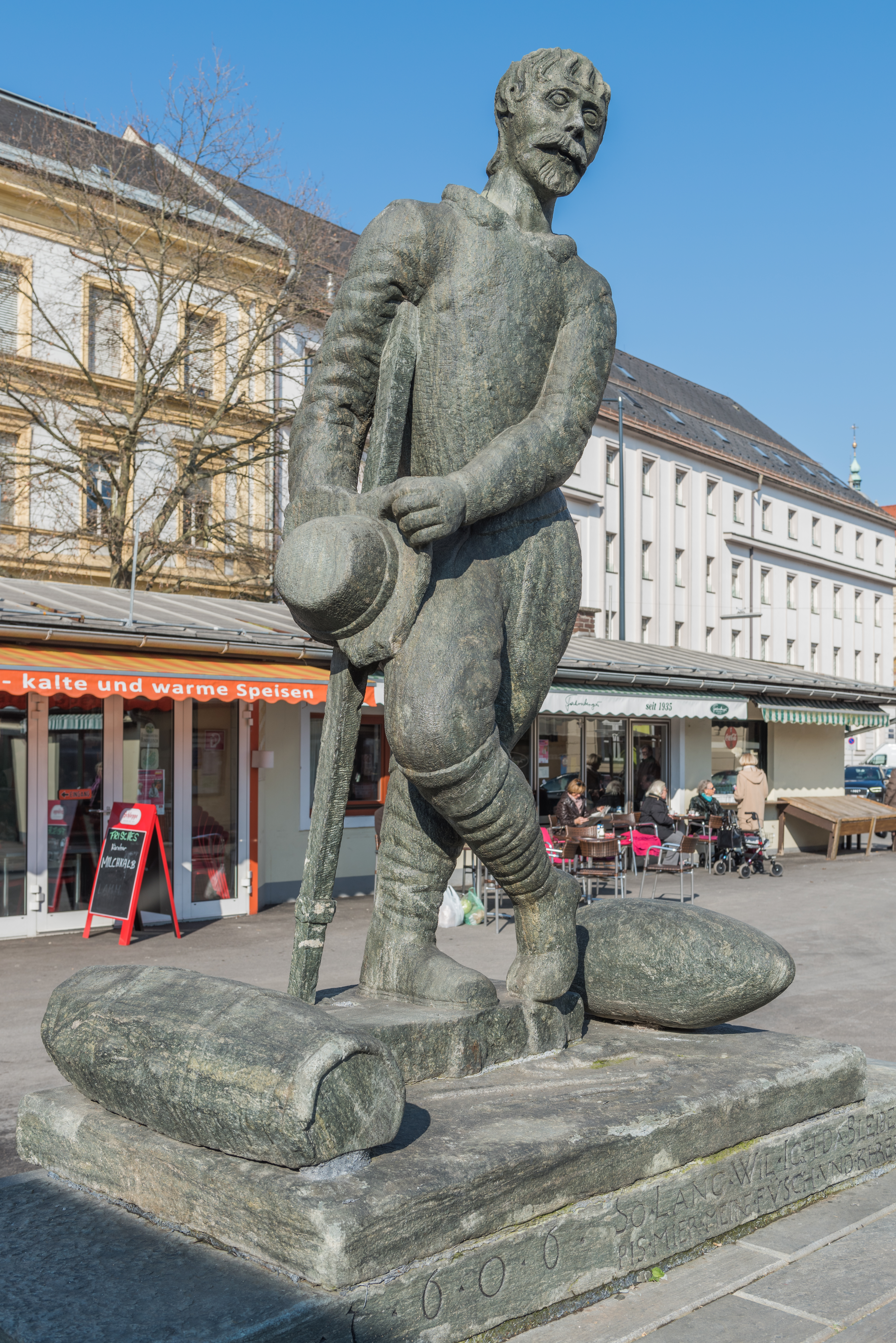 Sculpture "Steinerner Fischer" at the Benediktinerplatz, inner city of Klagenfurt, Carinthia, Austria, EU